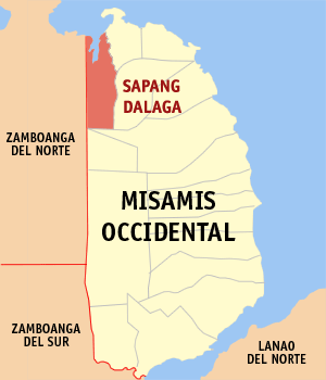 Map of the Misamis Occidental showing the location of Sapang Dalaga